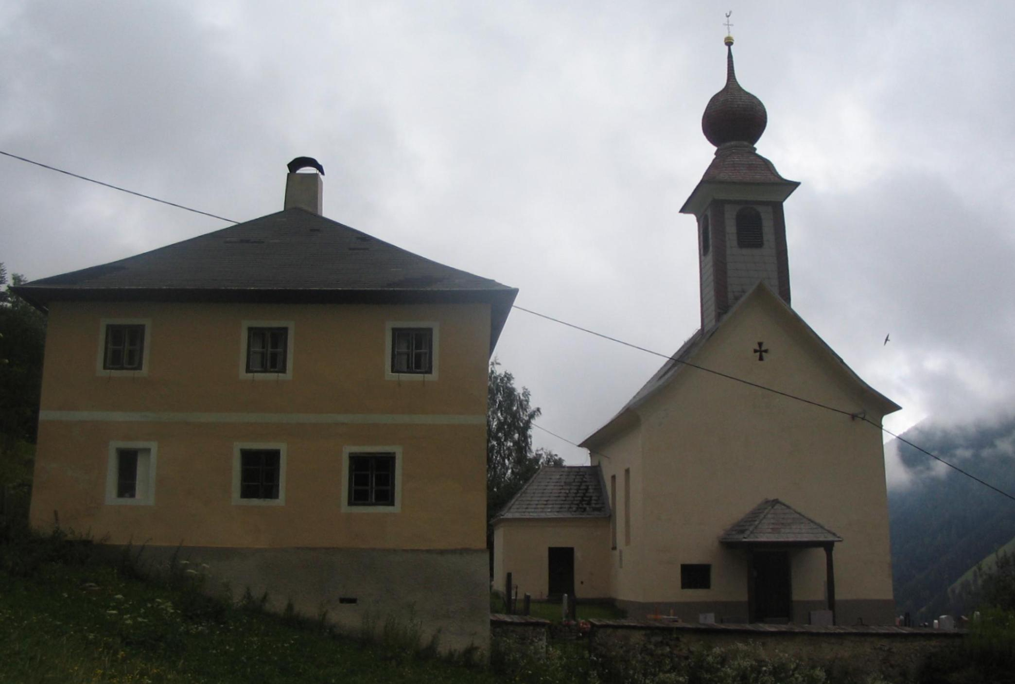 The frontside of the catholic church in Teuchl, Penk, Gemeinde Reißeck, Bezirk Spittal an der Drau, Carinthia, Austria.